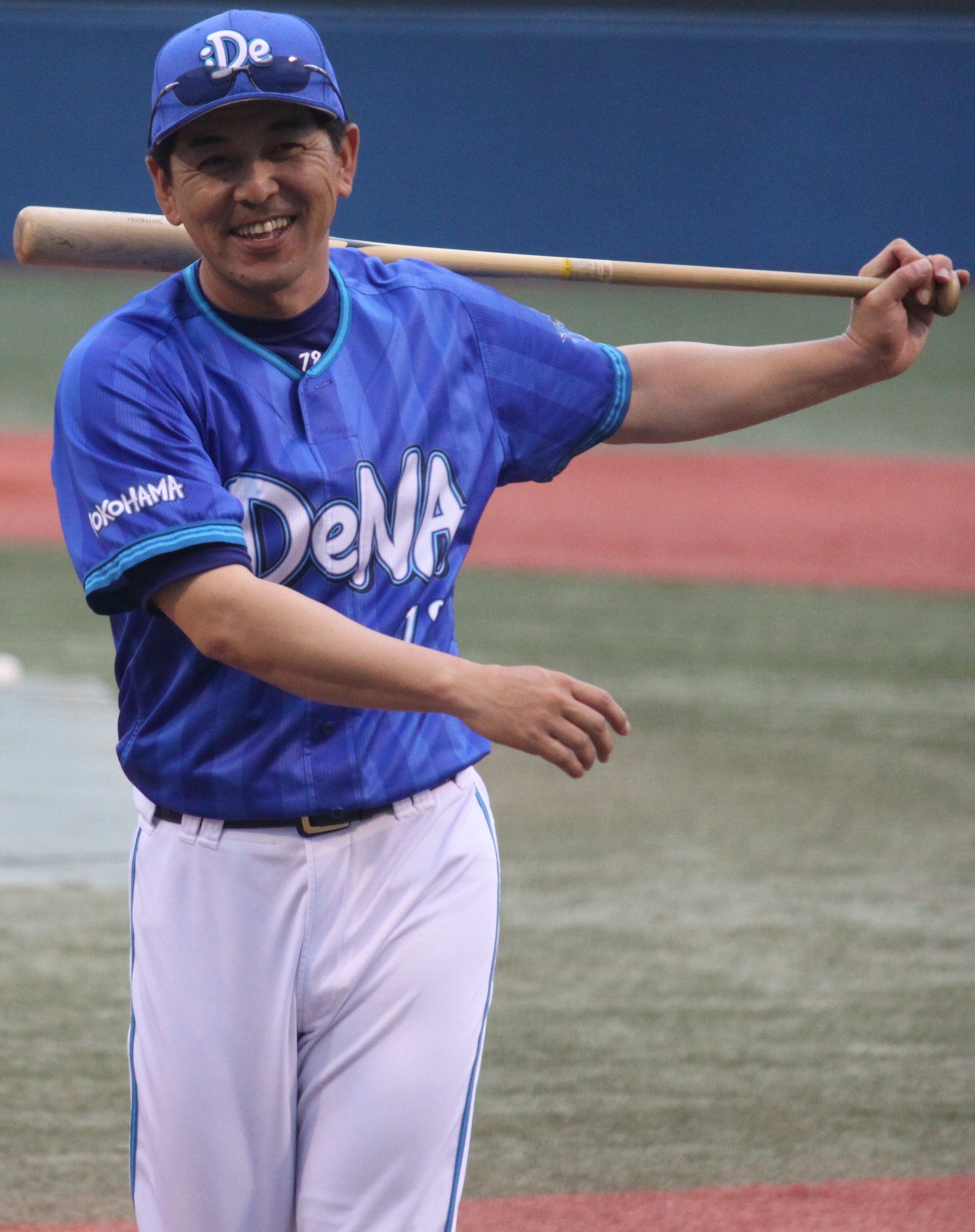 Tatsuya Shindo, coach of the Yokohama DeNA BayStars, at Meiji Jingu Stadium.